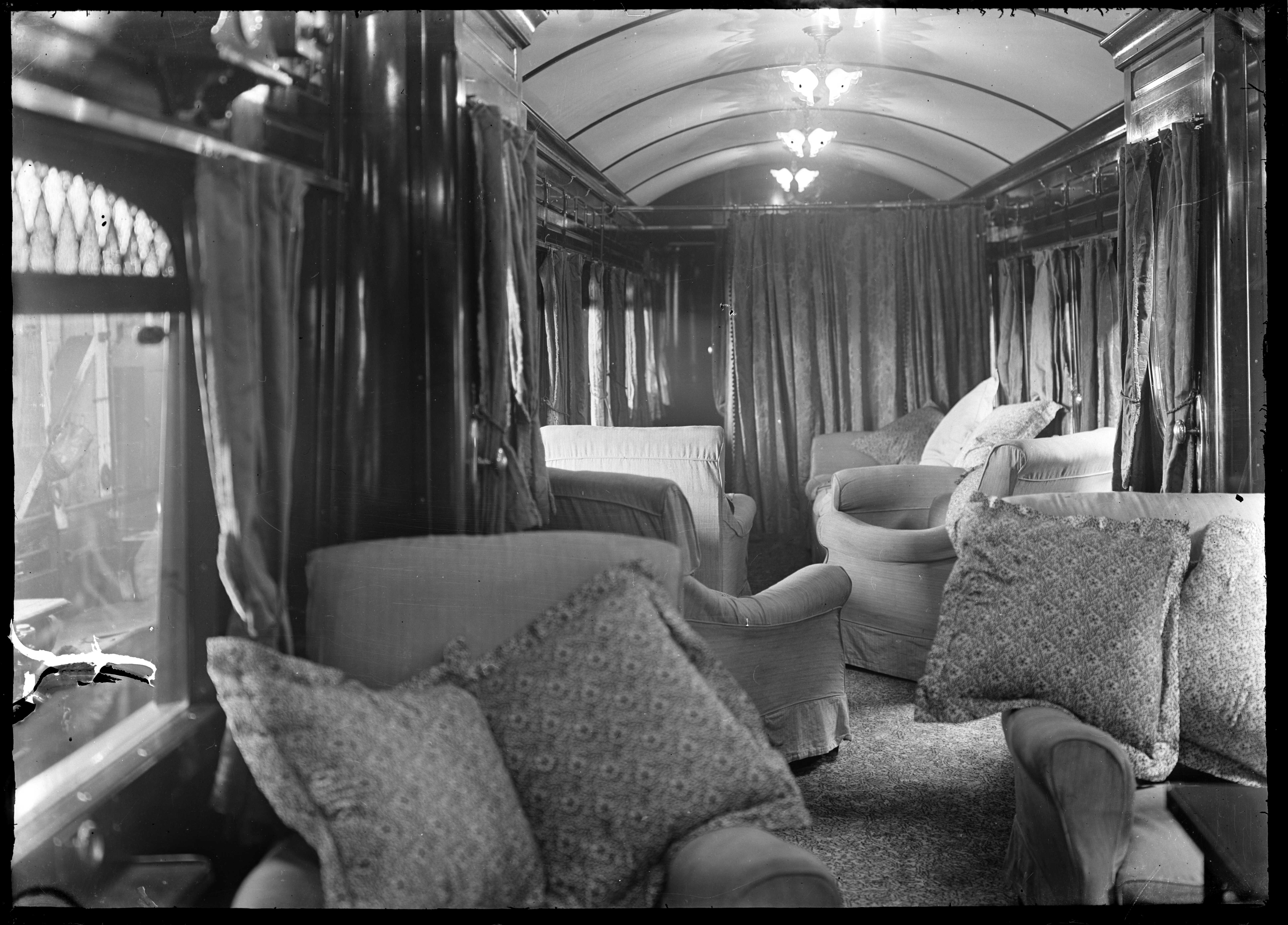 Lounge chairs iside the royal train carriage which was used during the Duke and Duchess of York's tour of the South Island in 1927. Photograph taken by Albert Percy Godber.